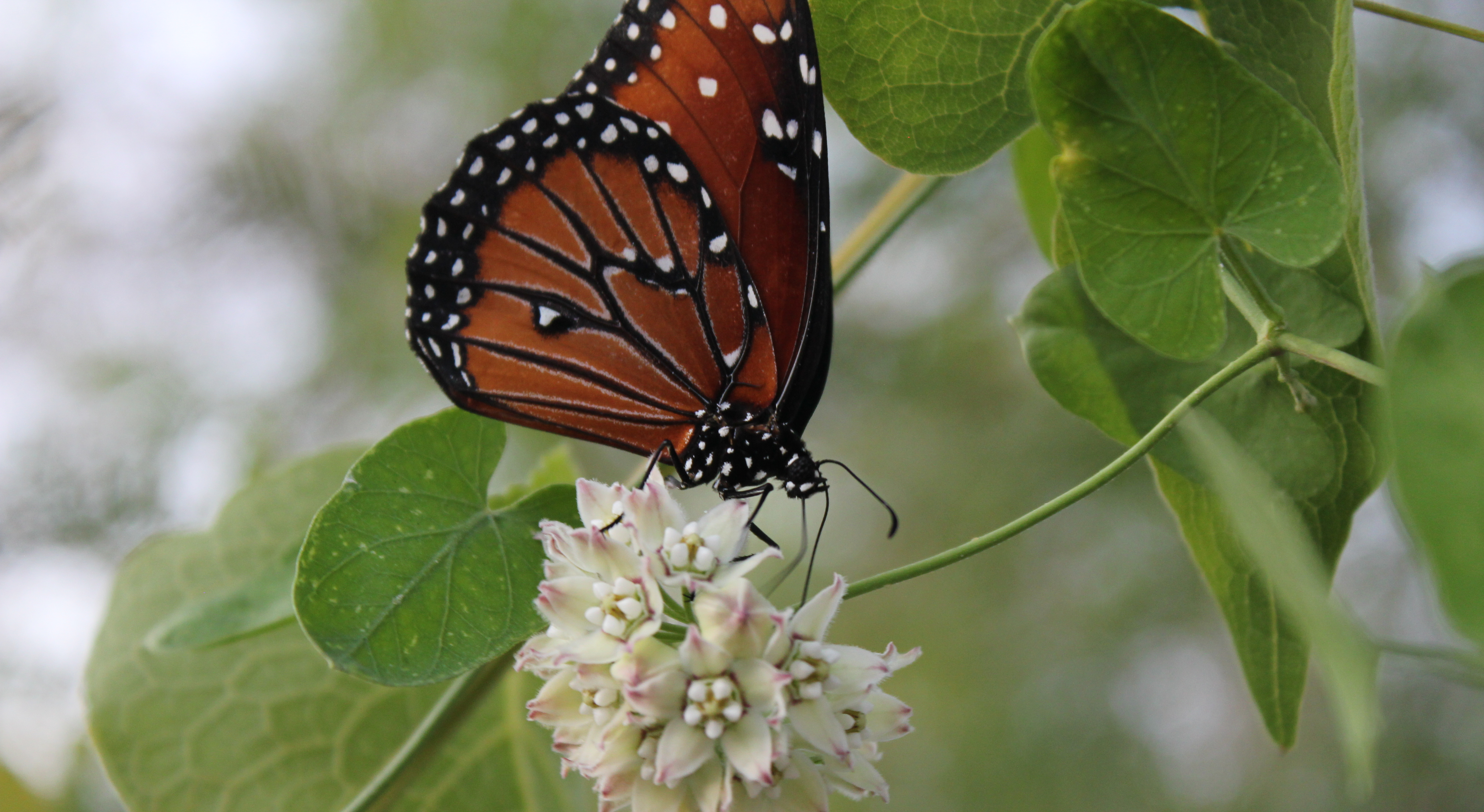 Monarch butterfly feeding on twining milkweed vine. Poets Square Neighborhood, Tucson, AZ